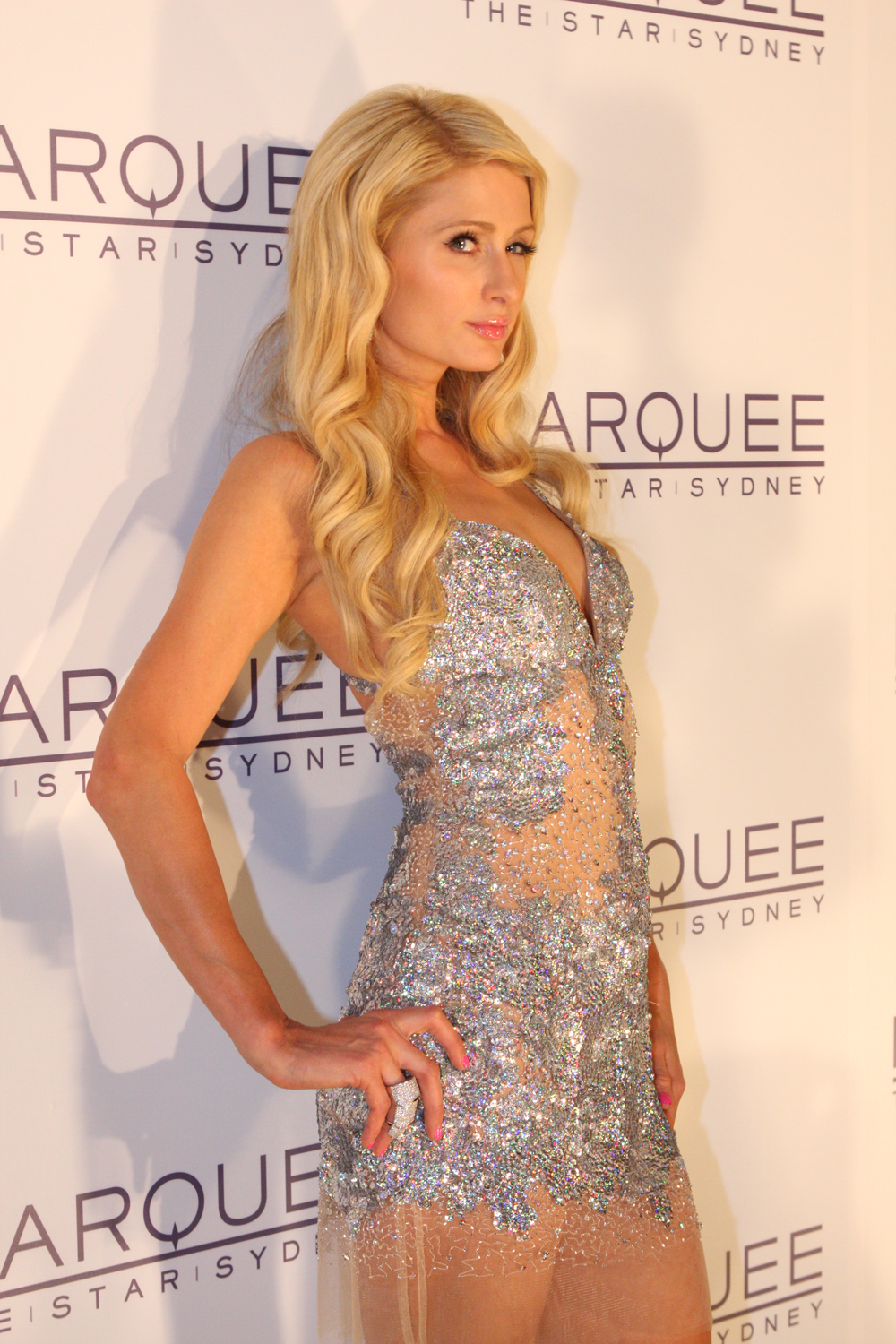 Paris Hilton at the opening gala of Marquee The Star, Sydney, Australia